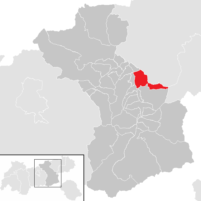 District Schwaz